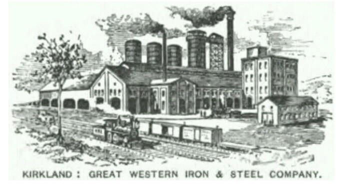 Kirkland Steel Mill in 1892 Kings Handbook of the United States. Historical steel mill built c. 1890 by Peter Kirk in Kirkland, Washington